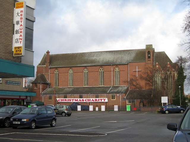 Church of Emmanuel, Wylde Green From The Lanes car park, view of Church of England church on corner of Little Green Lanes and Birmingham Road. Sign on left is for the Chinese Restaurant on upper floor of nearest building.